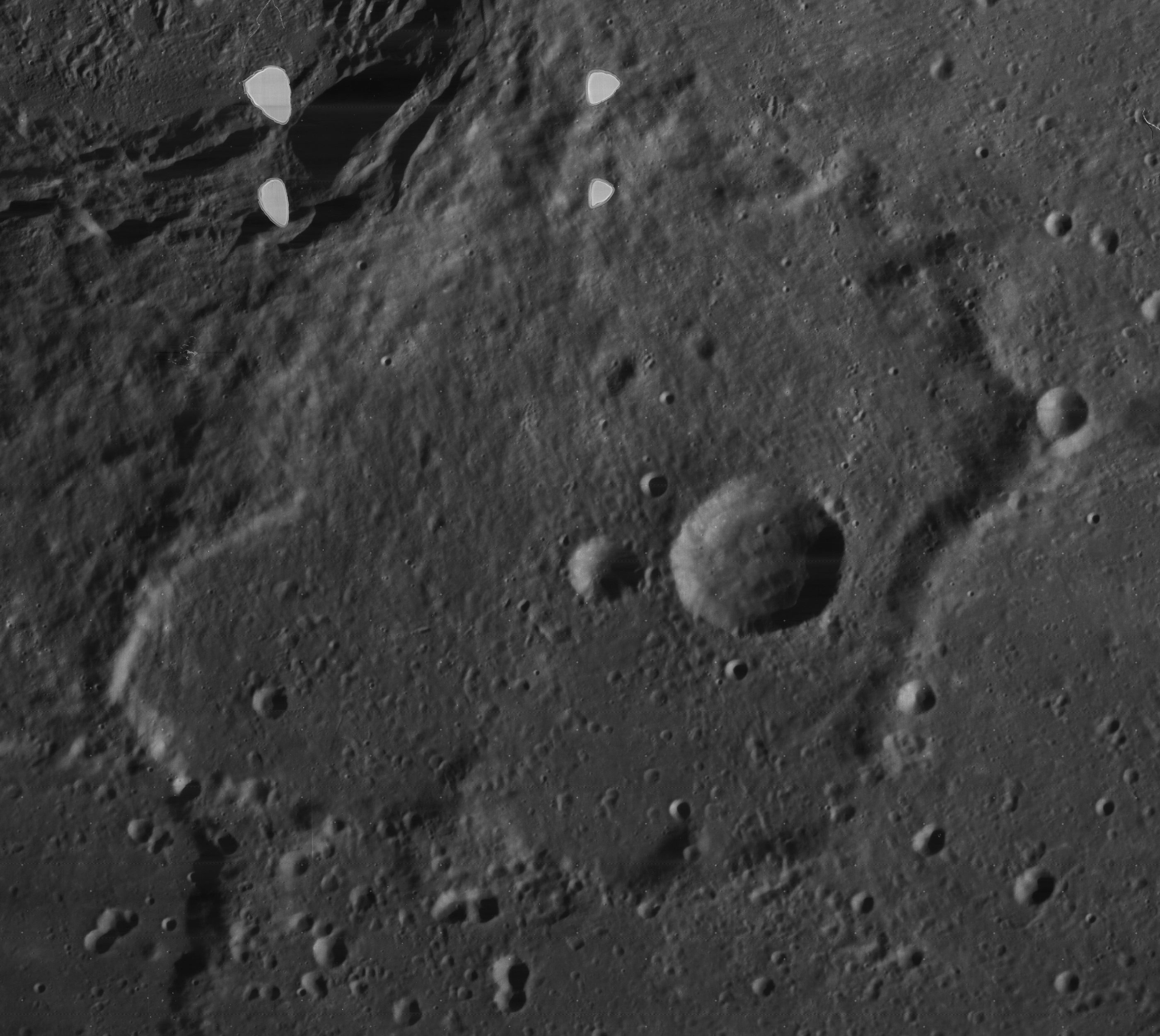 Babbage crater, on the moon. The four white patches at the top are blemishes on the original.